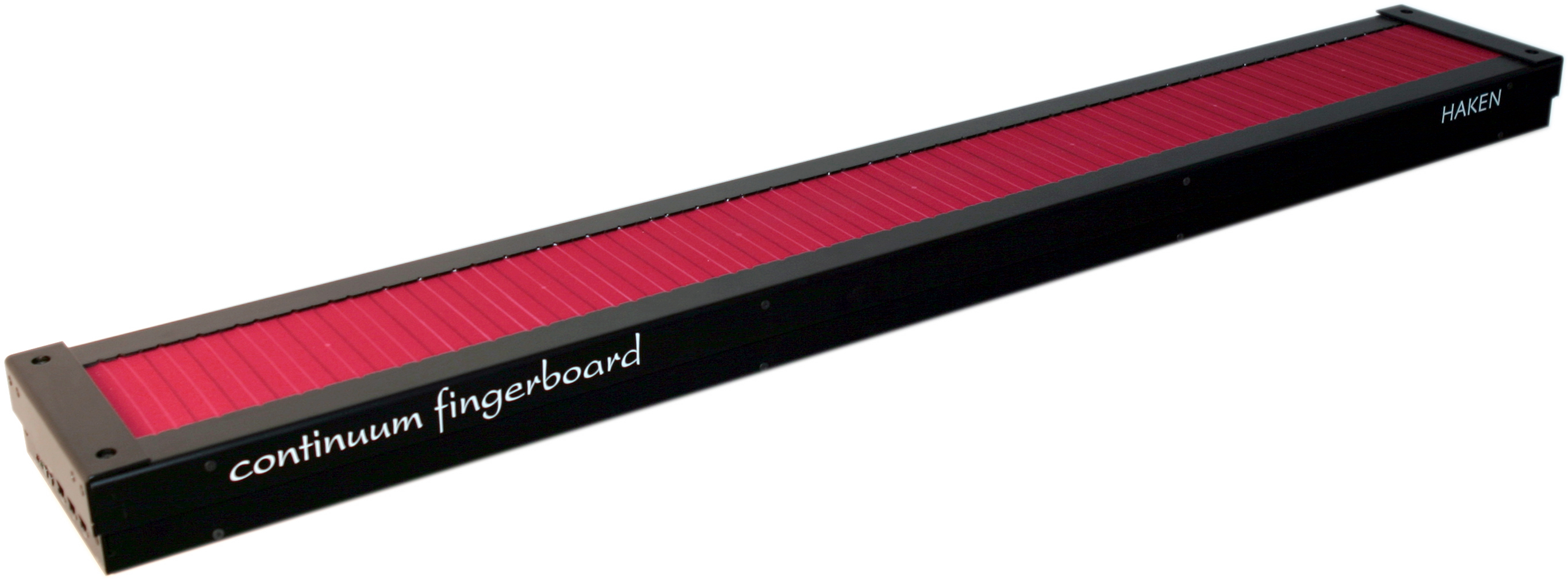 Image of Haken Audio's full-size Continuum Fingerboard.